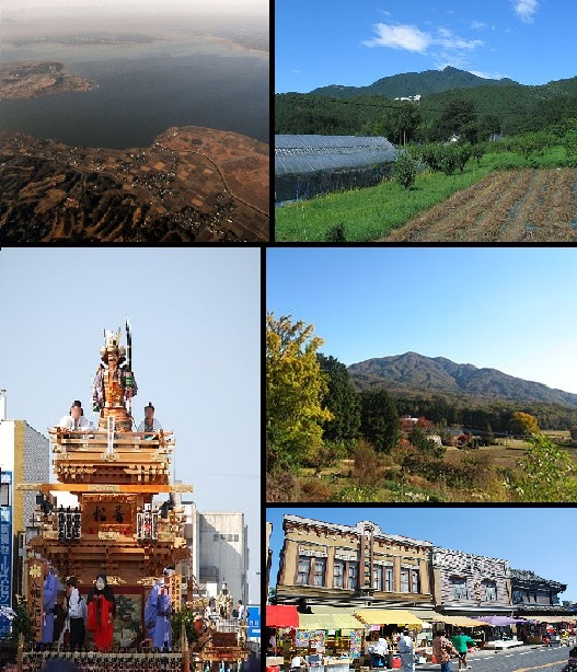 Ishioka montage